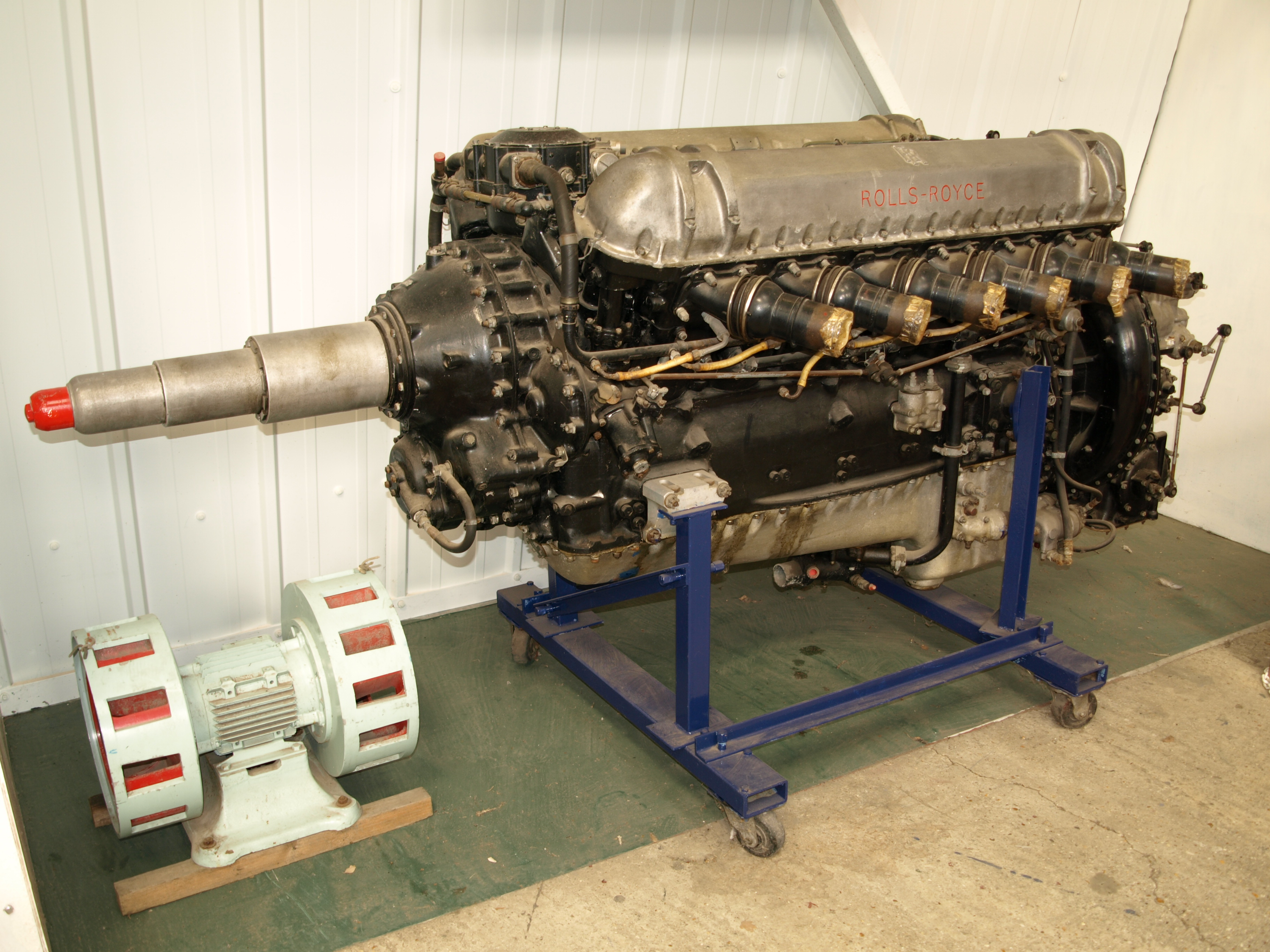 Rolls-Royce Griffon 58 aircraft engine preserved at the Shuttleworth Collection (item on left is an air raid siren)